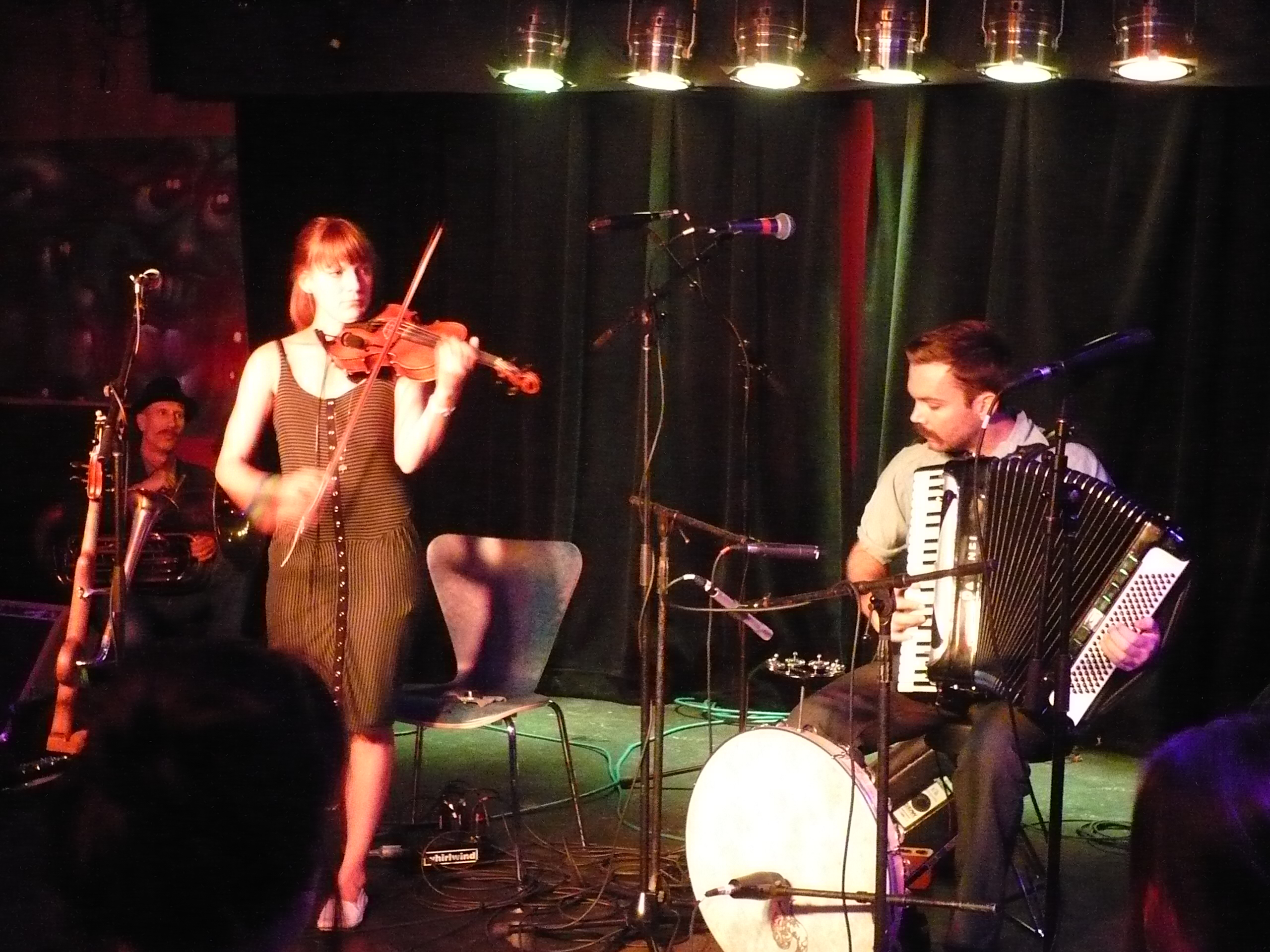 Three members of the American band A Hawk and a Hacksaw performing at the Dionysus Club ('Sco), Wilder Hall, Oberlin College, Oberlin, Ohio, United States. From left to right: Mark Weaver, tuba; Heather Trost, violin; Jeremy Barnes, accordion and percussion